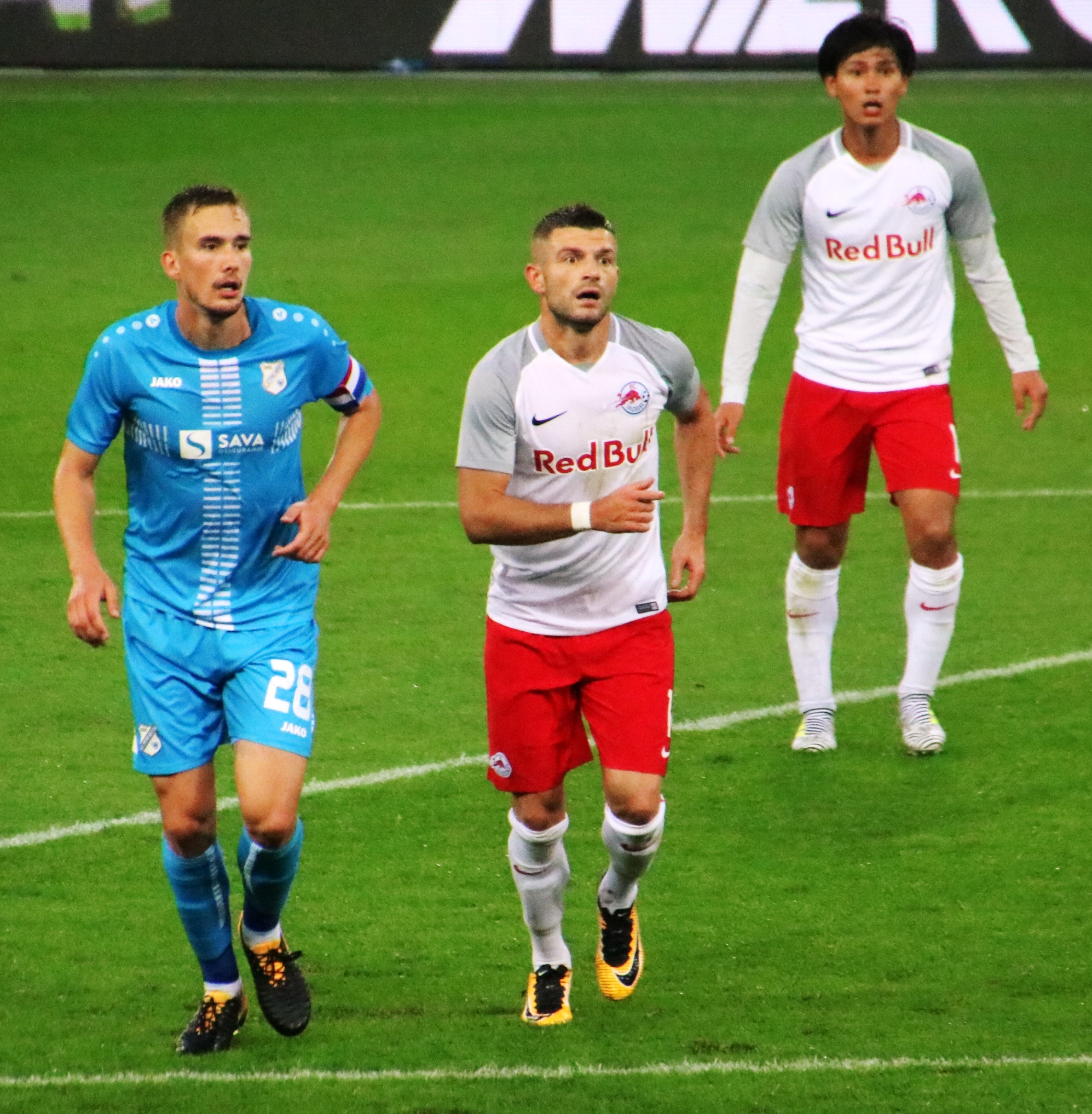 CL Qualifier 3rd round